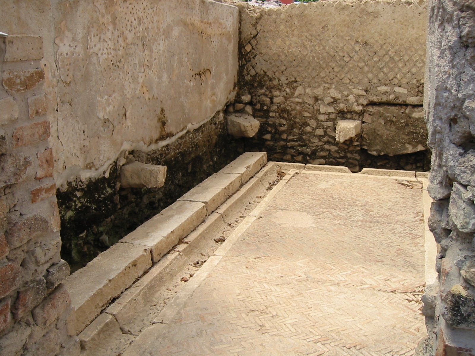 Latrina in the ancient city of Minturno.